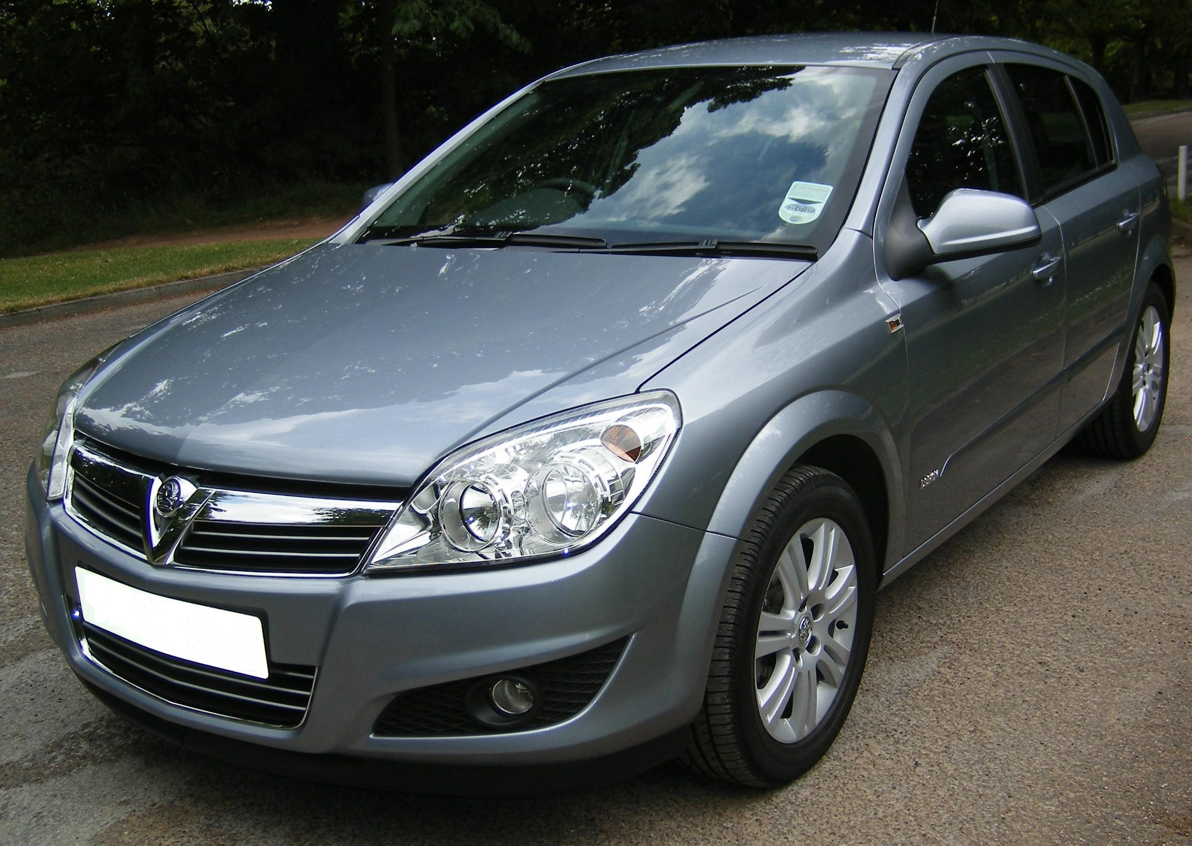 A MkV Vauxhall Astra Design on the drive of Oulton Hall, Leeds, West Yorkshire. Taken in July 2010.